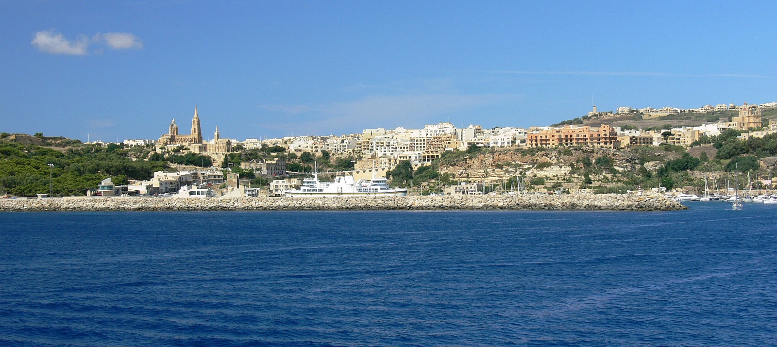 Mġarr seen from the Gozo ferry